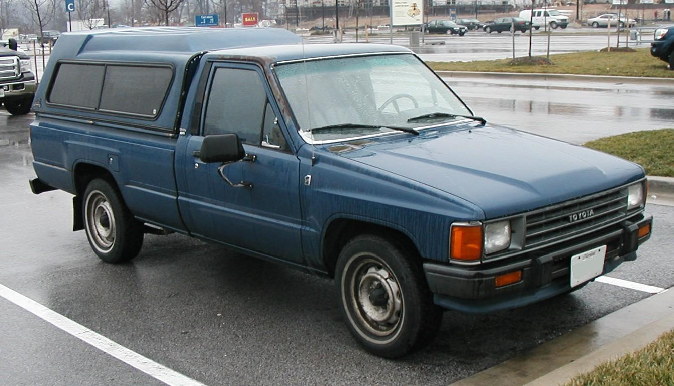 1984-1988 Toyota pickup photographed in USA.